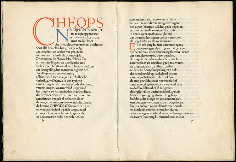 Dutch poem Cheops by J.H. Leopold. Private press "De Zilverdistel"